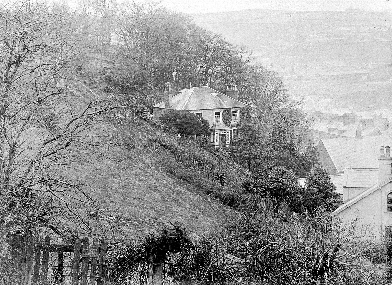 Griffith Evans (1835-1935) - home in Wales Wellcome Images Keywords: Griffith Evans